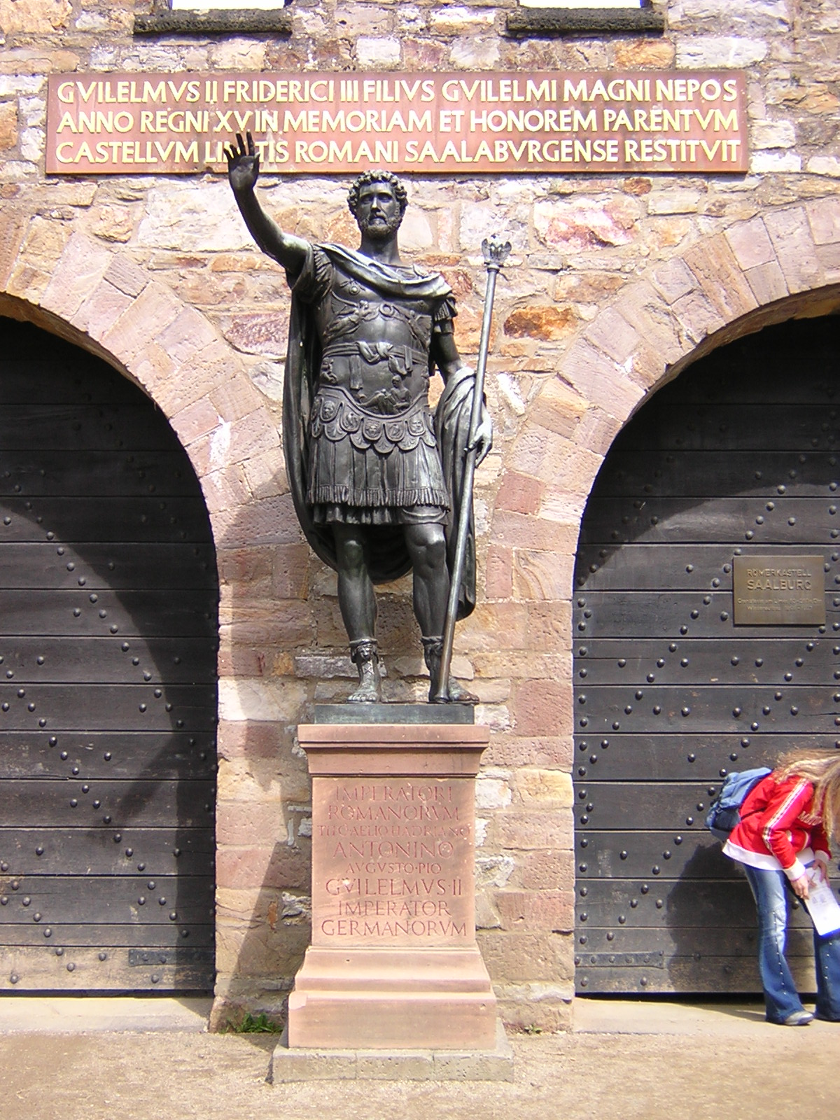 Statue of Antoninus Pius at the entrance of Saalburg. The inscription on the plaque reads: Wilhelm II, son of Friedrich III, grandson of Wilhelm the Great, in the 15th year of his reign, in memory and honor of his parents (or forefathers?), restored the Roman limes (border) fort of Saalsburg. The inscription on the base of the statue reads: To Emperor of the Romans, Titus Aelius Hadrianus Antoninus Augustus Pius, [from] Wilhelm II, Emperor of the Germans.